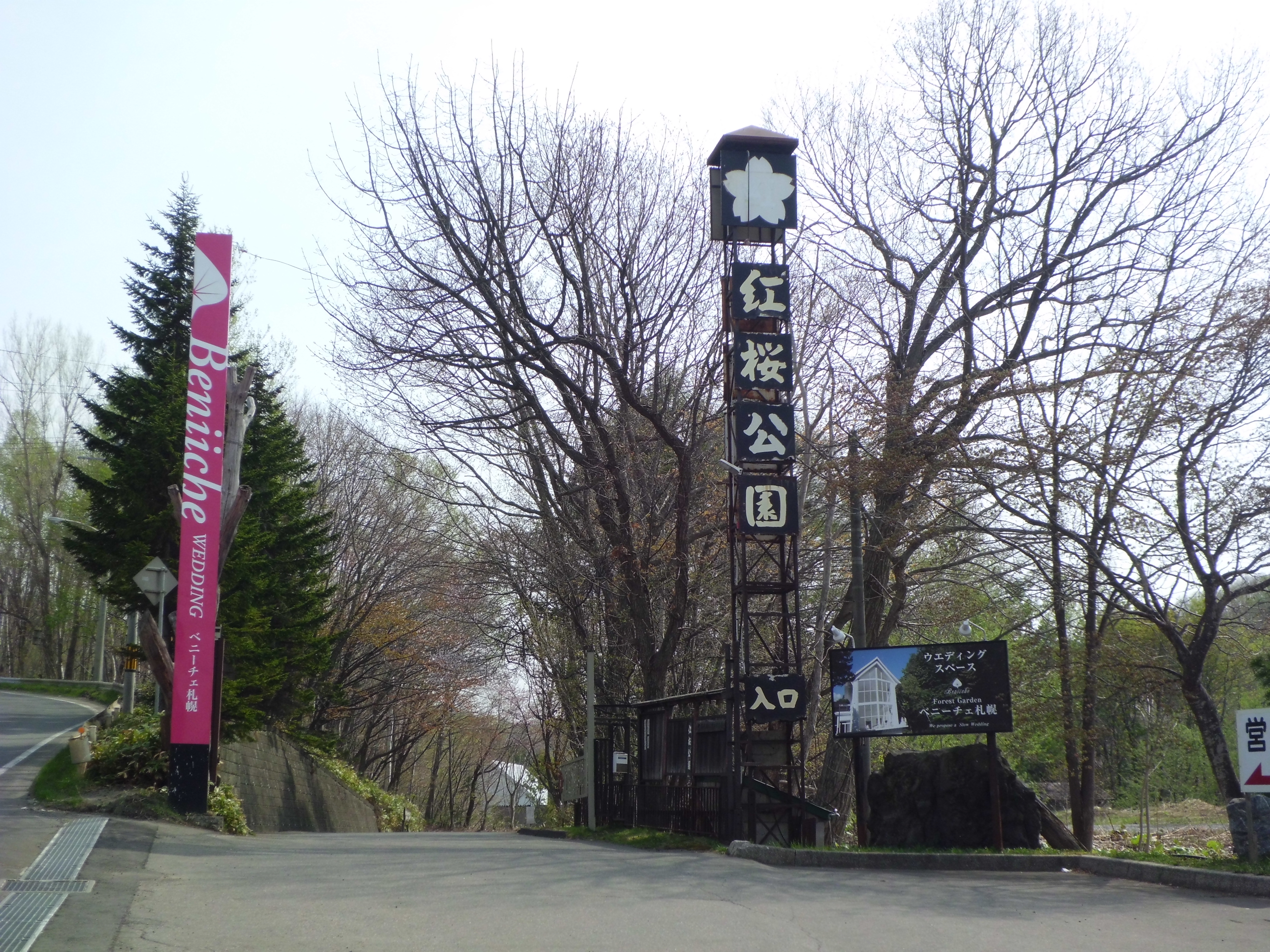 Benizakra Park in Minami-ku, Sapporo